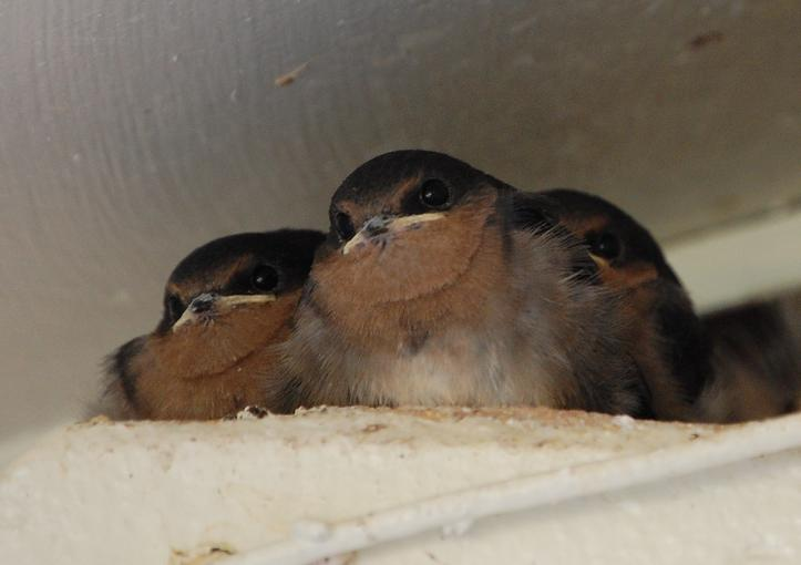 Juvenile Welcome Swallows in a nest in Australia.